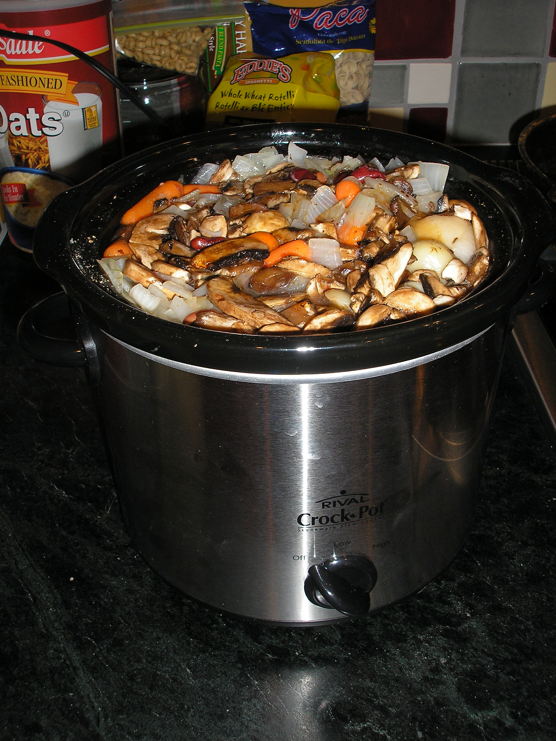 Vegetable cholent uncooked